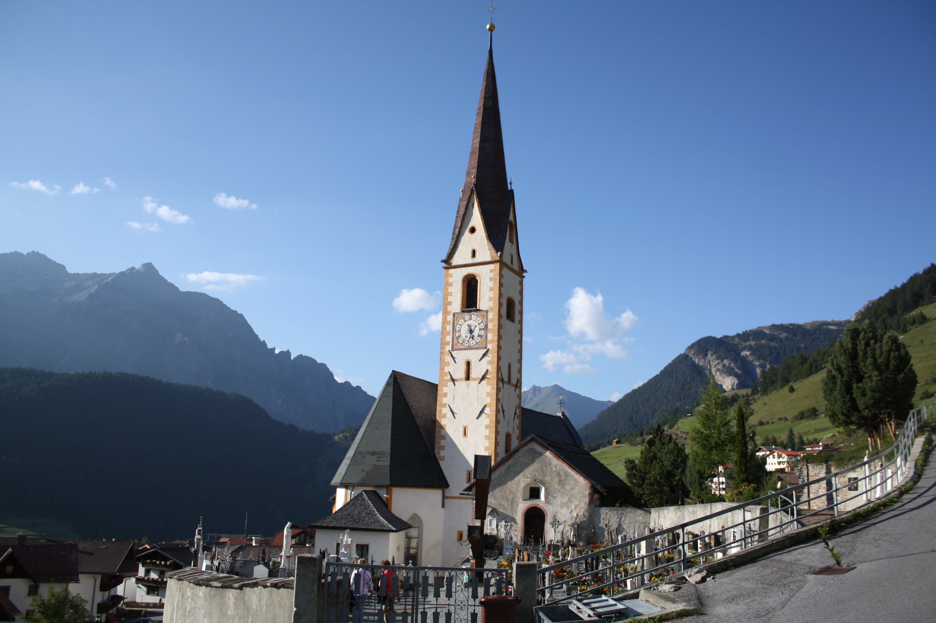 Nauders, catholic church hl. Valentin